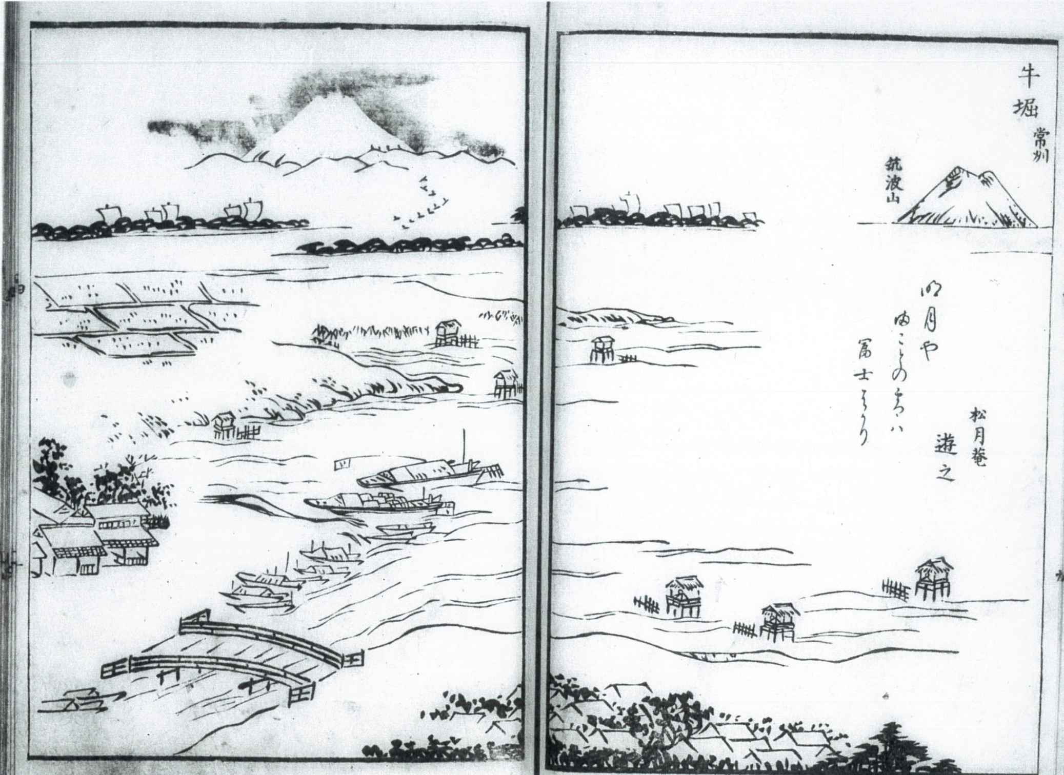 pictured Mt.Fuji(left),Mt.Tsukuba(right),and Kasumigaura-Lake